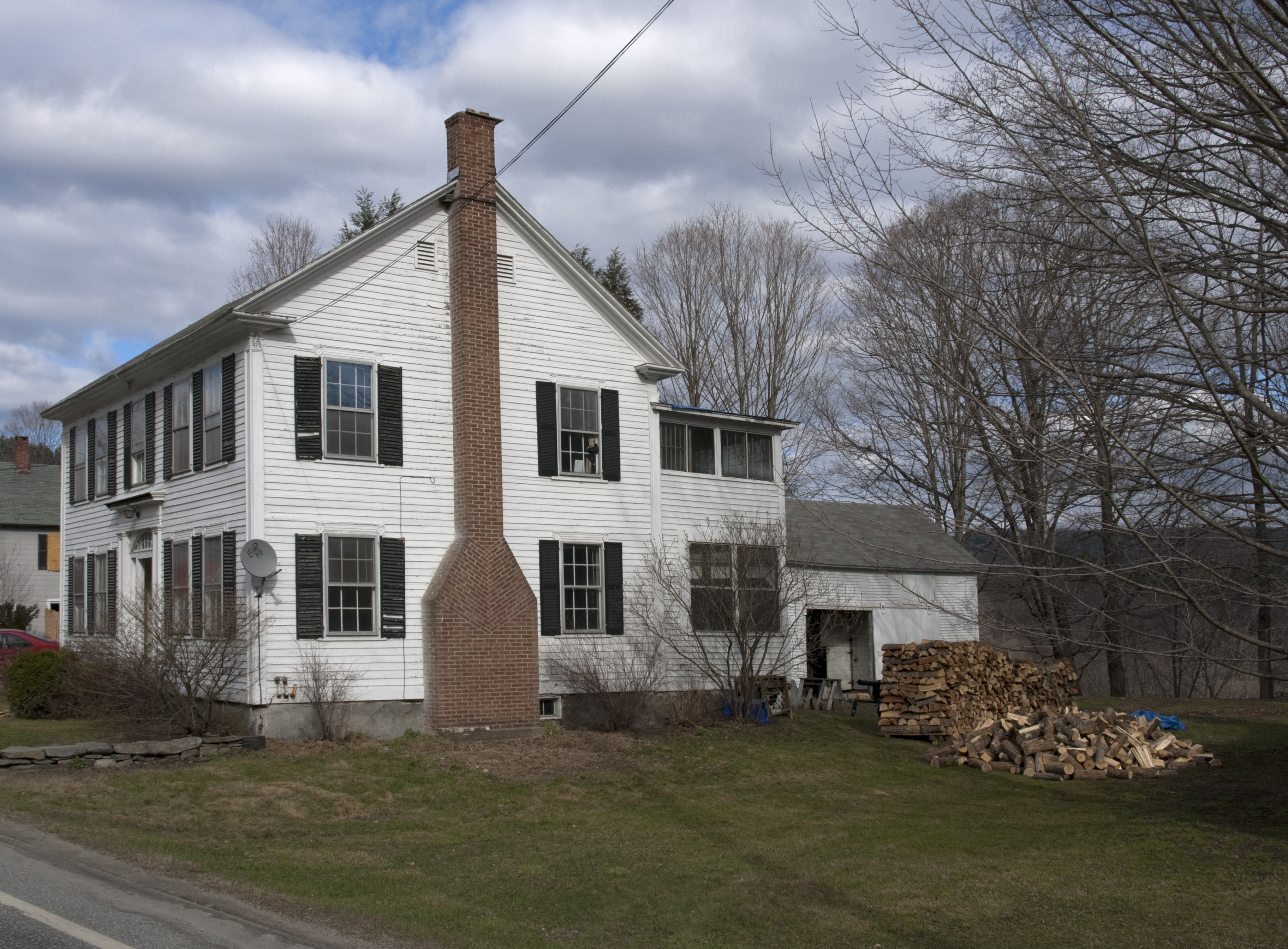 A house in Perkinsville, VT, across the road from the Community Church